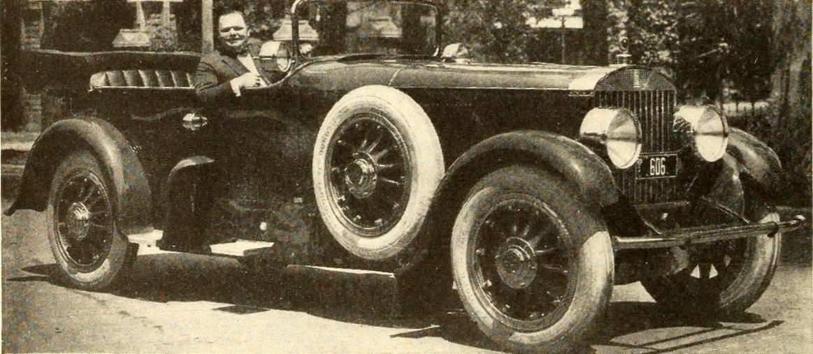 Actor Roscoe Arbuckle and his custom built Pierce-Arrow, which cost $25,000, page 66 of the September 1921 Photoplay.